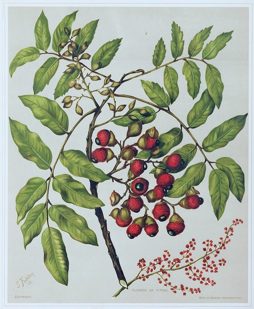 Colour plate of New Zealand tree Alectryon excelsus Gaertn., "Titoki", Sapindaceae